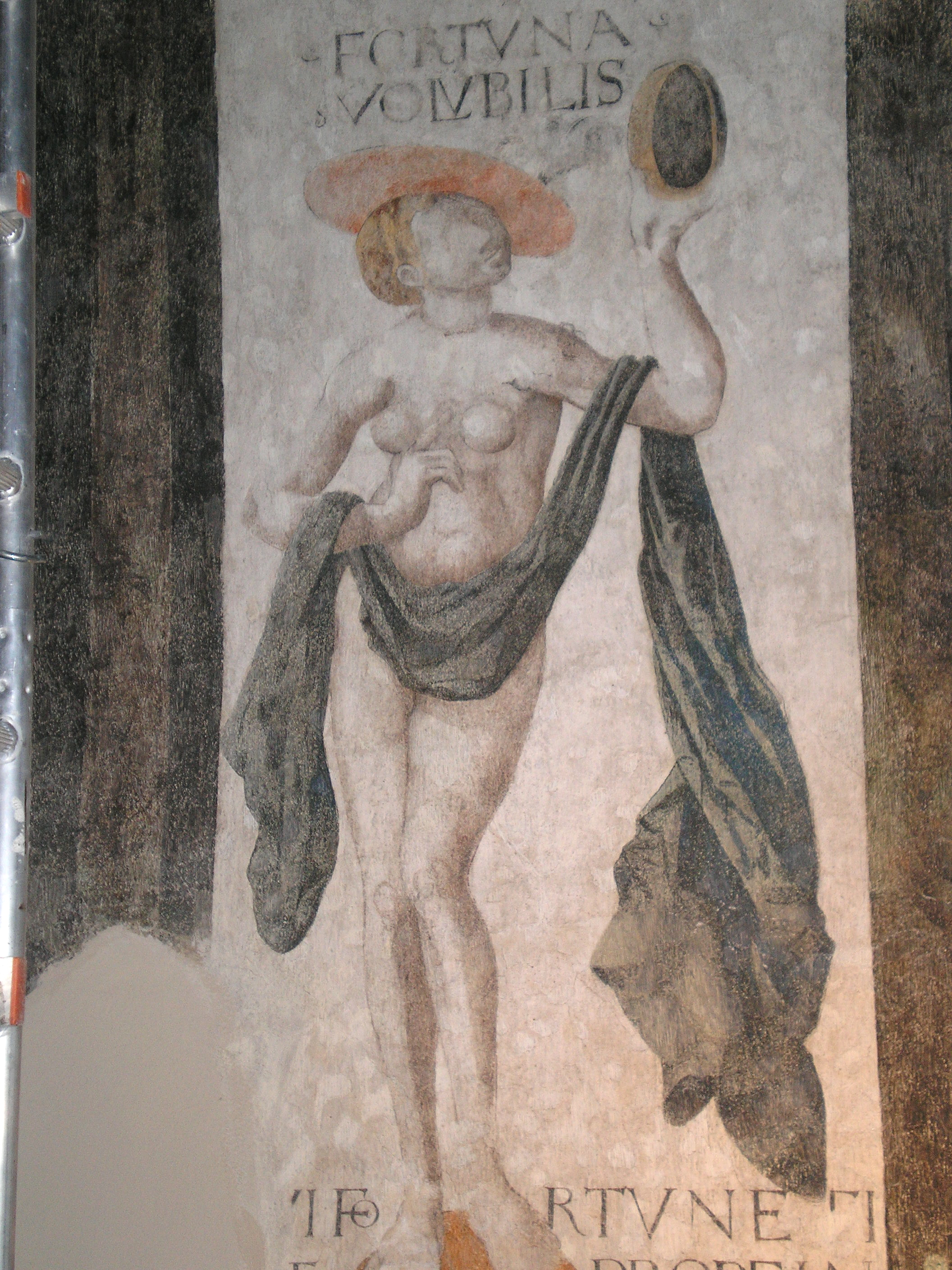 Pardubice castle interior2